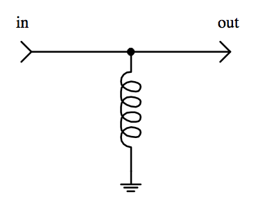 own work